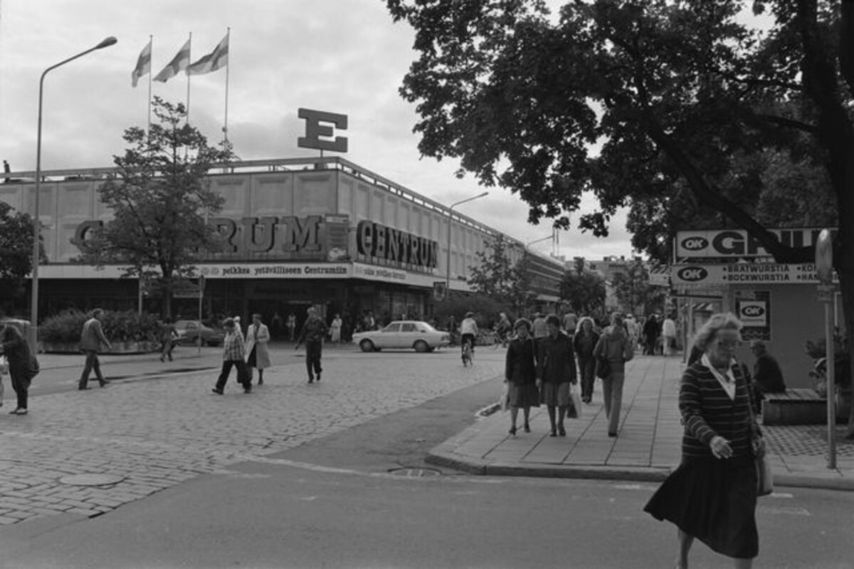 Centrum department store, Pori, Finland.